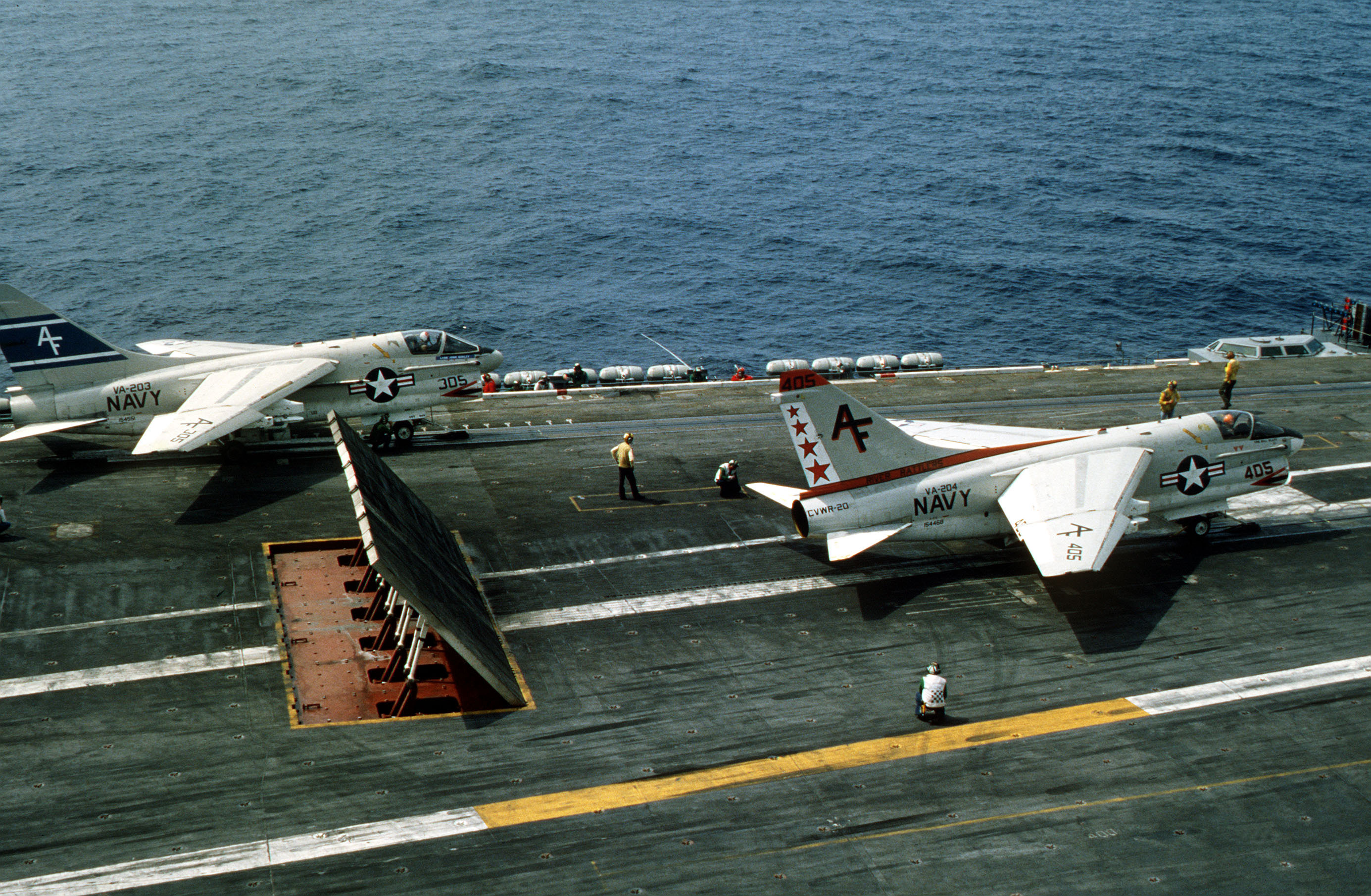 Two U.S. Naval Reserve Vought A-7B Corsair II aircraft are ready for launch during flight operations aboard the nuclear-powered aircraft carrier USS Carl Vinson (CVN-70) on 15 June 1982. A-7B BuNo 154468 (nearer to the camera) was assigned to attack squadron VA-204 River Rattlers, A-7B BuNo 154551 to VA-203 Blue Dolphins, both squadrons being part of Reserve Carrier Air Wing 20 (RCVW-20).